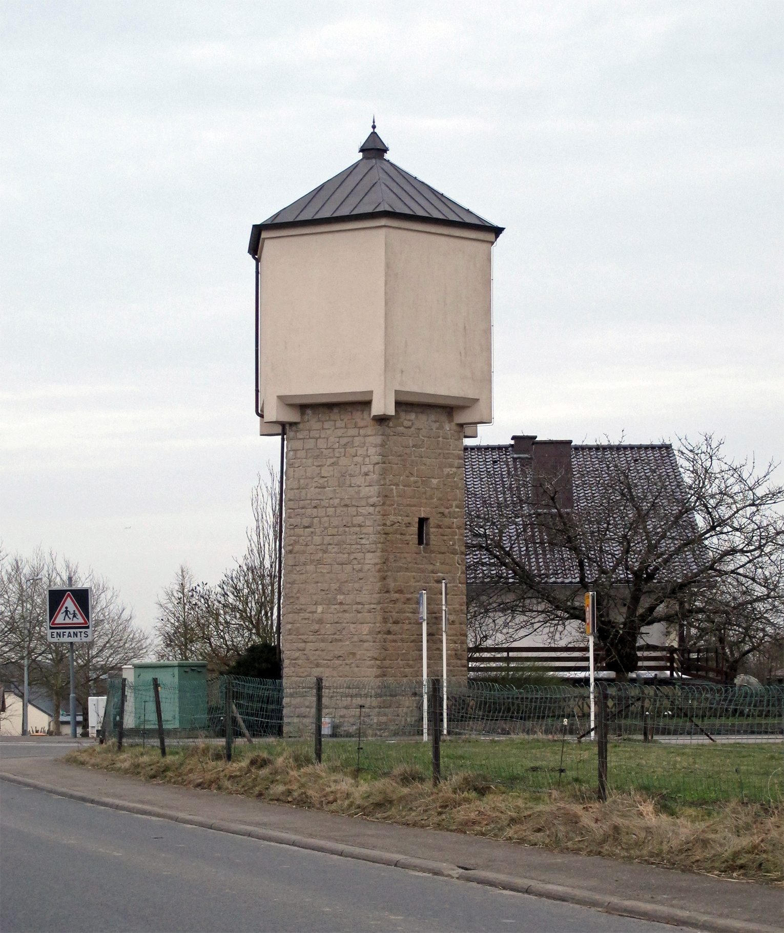 Water tower in Dahlem, Luxembourg